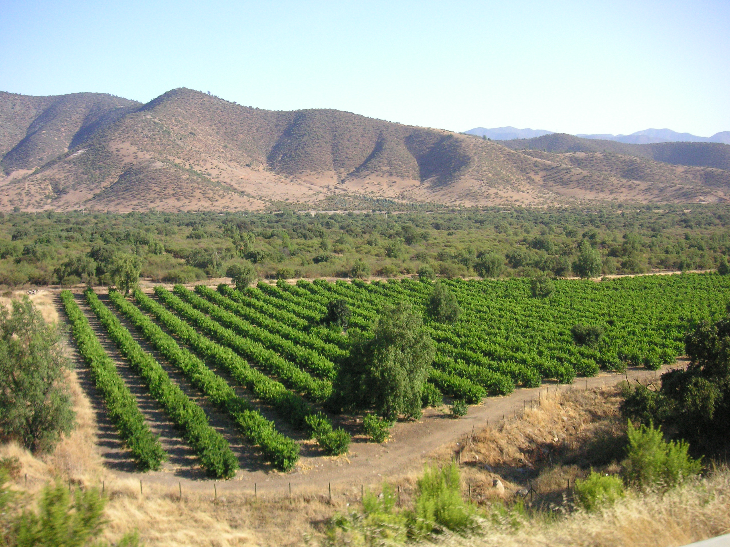 Image of Chilean vineyard in the foothills of the Andes.